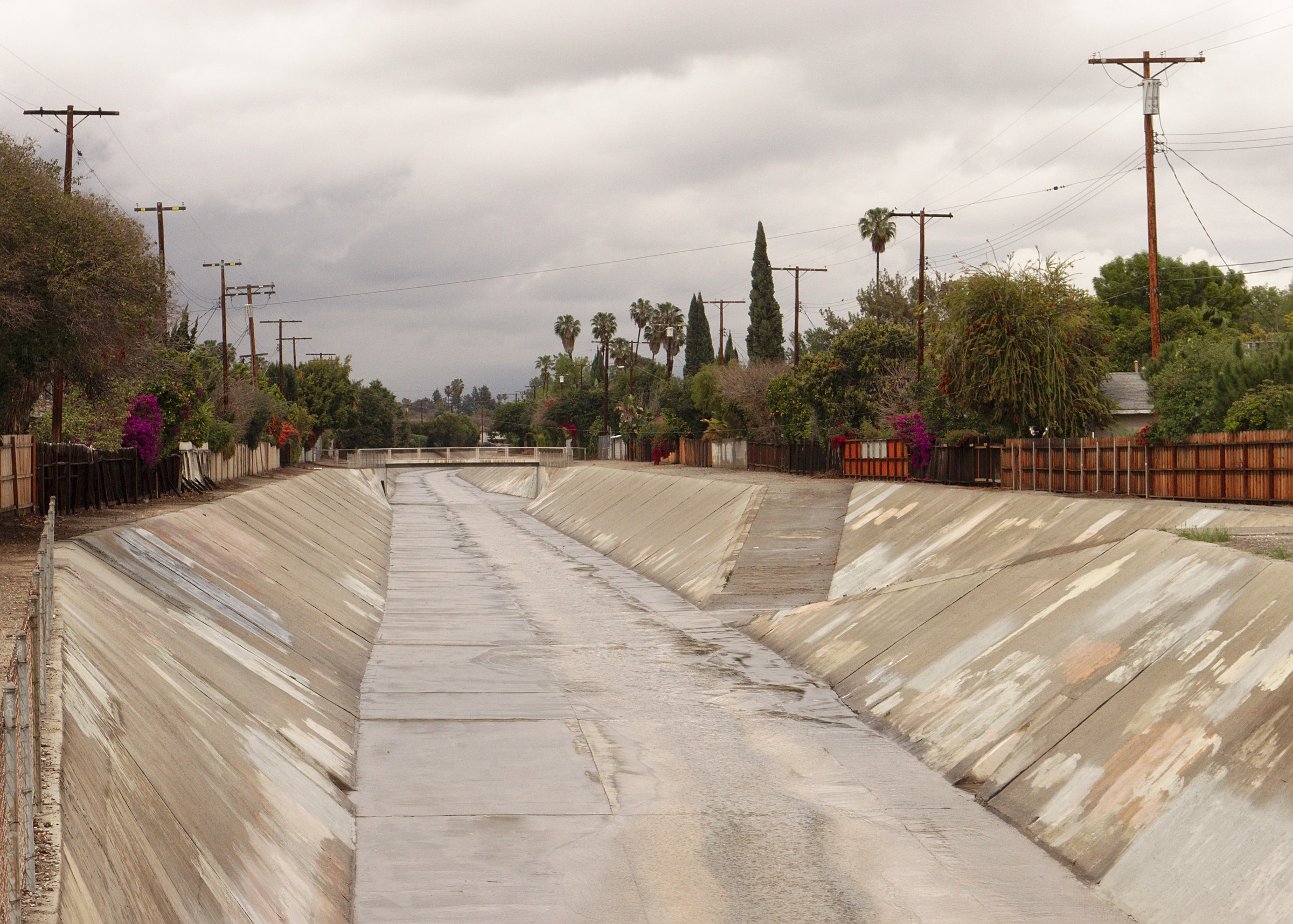 Bull Creek, looking north from Victory Boulevard in the Lake Balboa neighborhood of Los Angeles, California; about half a mile (2975 feet, 906 meters) from the creek's mouth into the Los Angeles River. In the foreground, the Haynes Street pedestrian bridge can be seen.